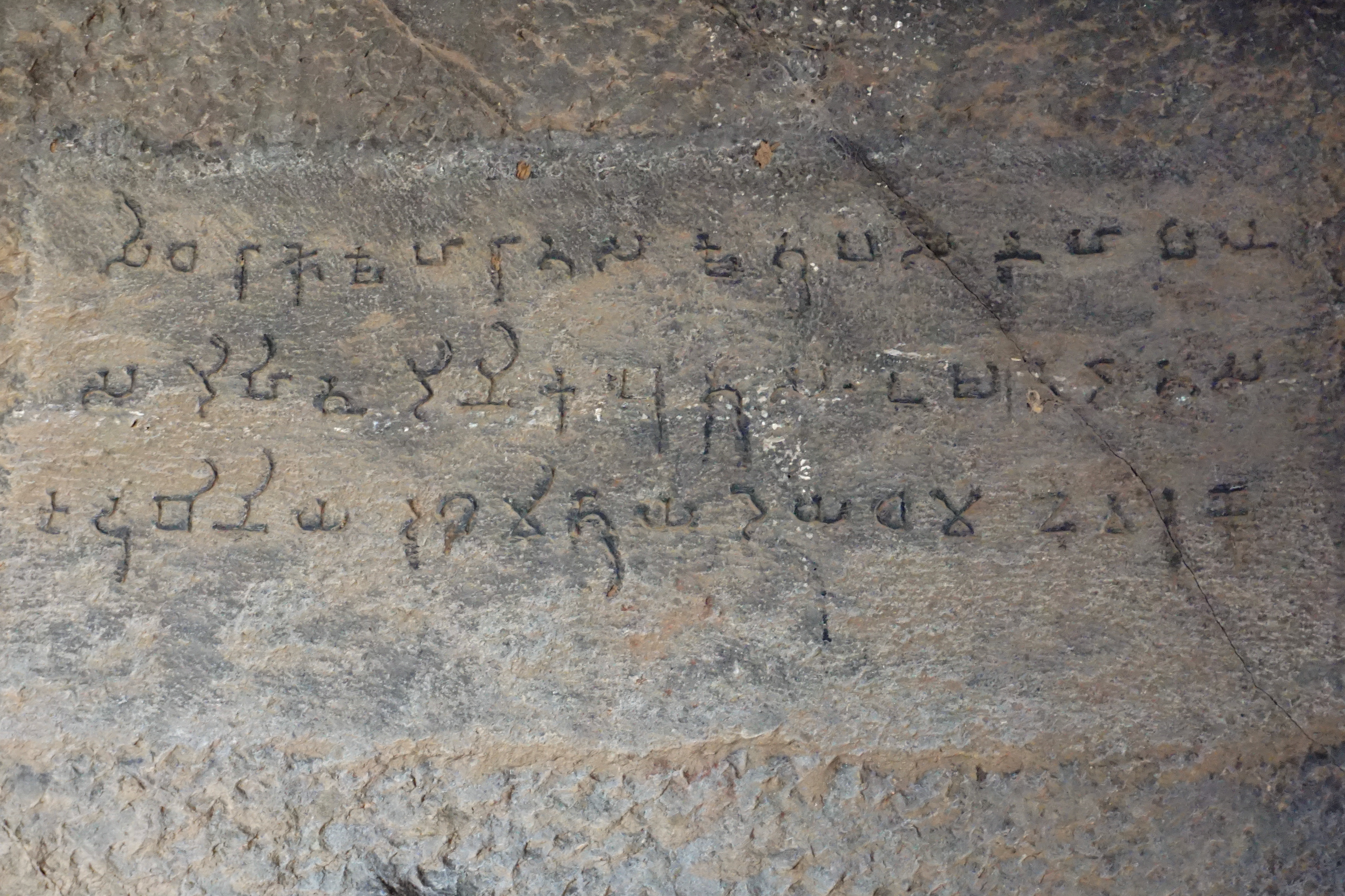 Trirasmi Caves, Nashik, India/ Pandavlena, Nashik, India. This is inscription No.11, by Dakhamitra, wife of Ushavadata, which reads " Success ! This cell, the gift of Dakhamitra, wife of Ushavadata, son of Dinika, and daughter of king Nahapana, the Khshaharata Kshatrapa." in Epigraphia Indica p.81-82